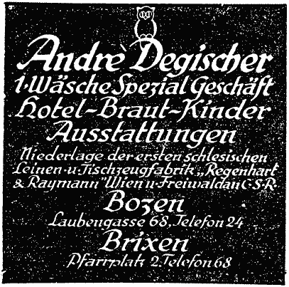 1925 Degischer linen advertisement from Bozen-Bolzano